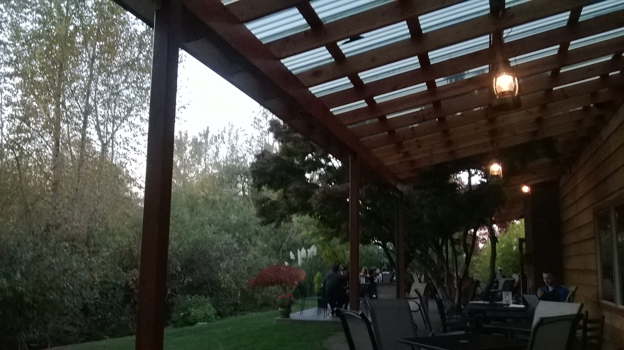 Gilgamesh Brewing outdoor seating for their lounge.